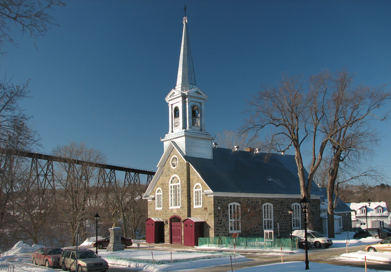 mine